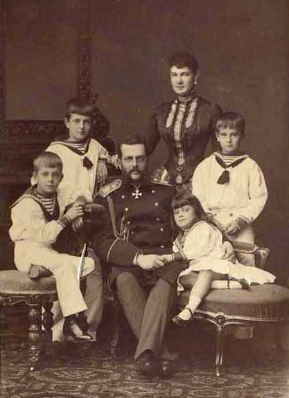 Grand Duke Vladimir Alexandrovich with his wife and four children.